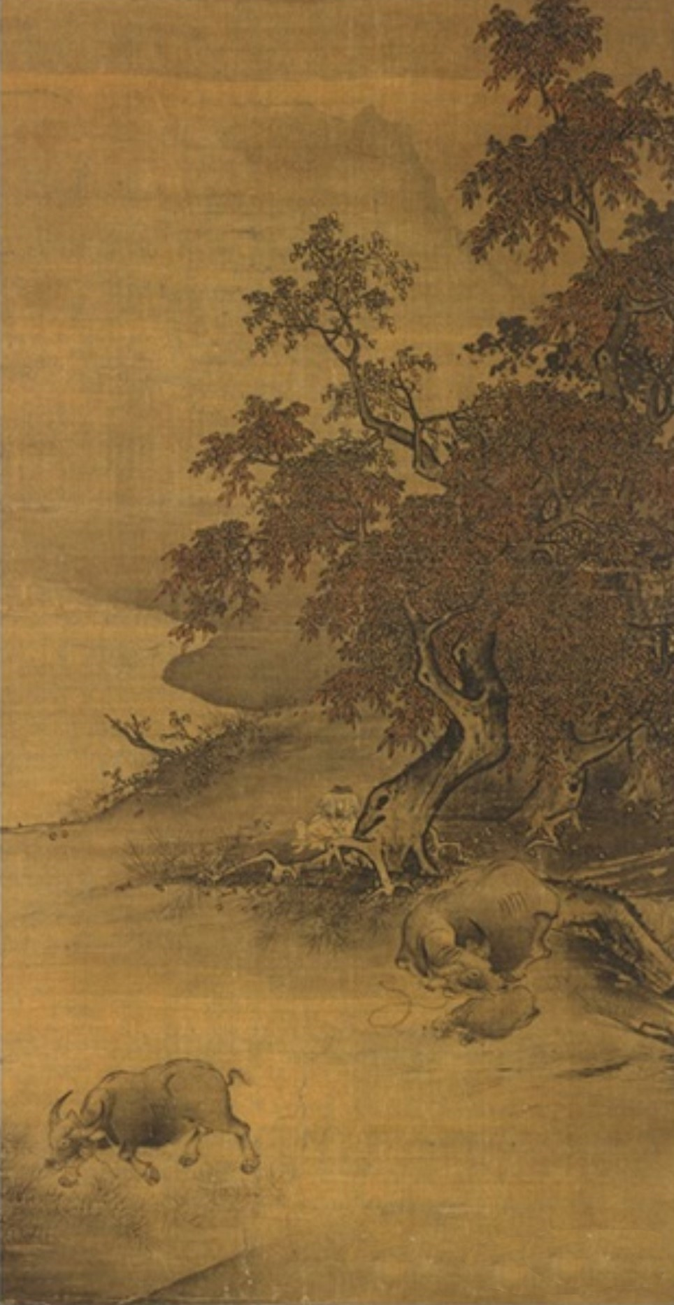 Waterbuffalos under a tree